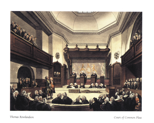 A drawing of the Court of Common Pleas by Thomas Rowlandson